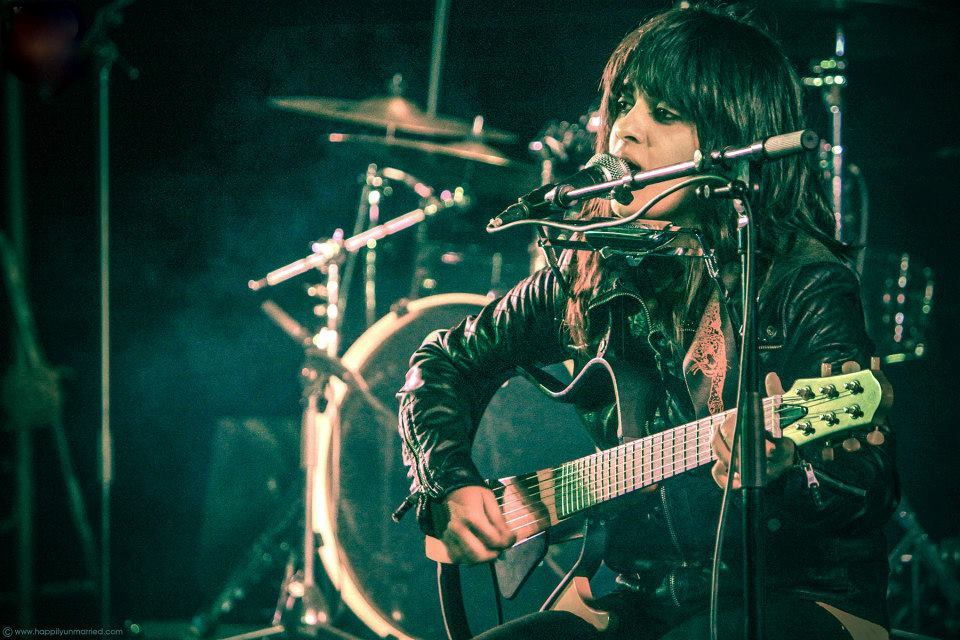 Jasleen Royal performing in Rajasthan